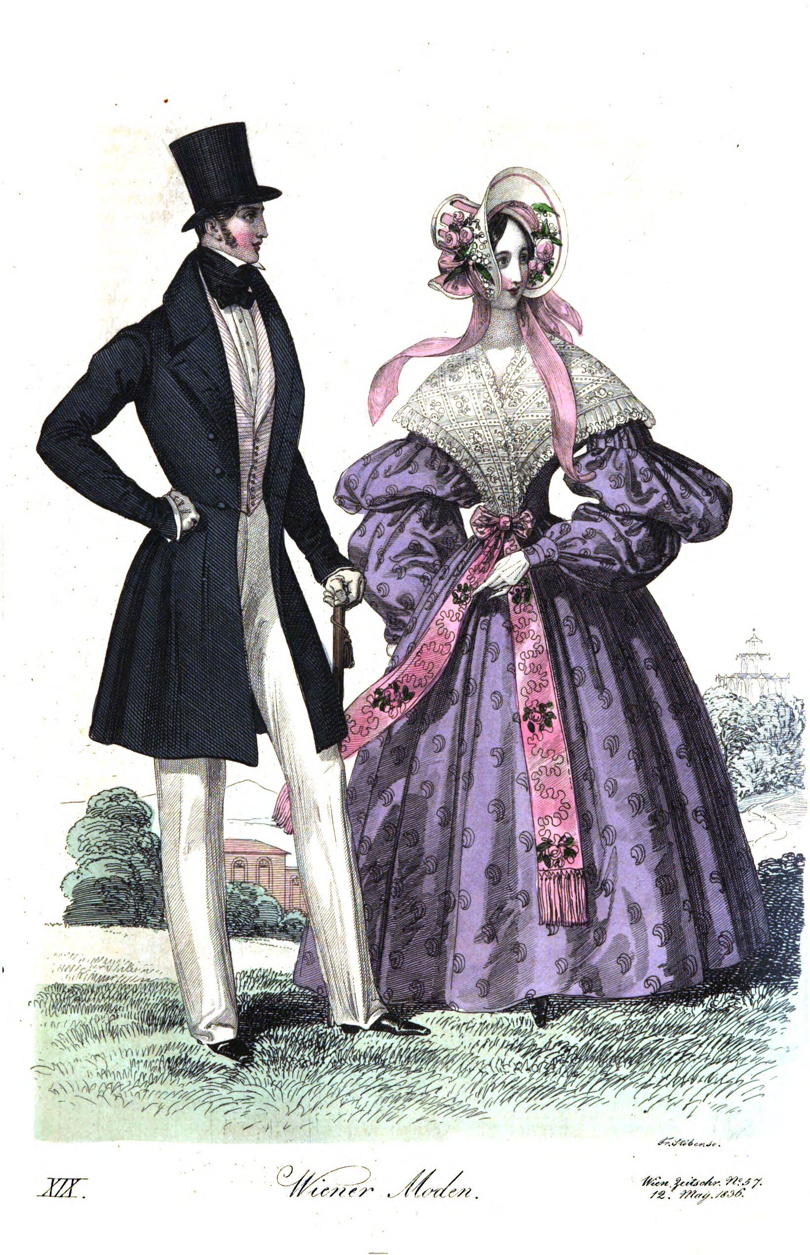 Viennese fashion